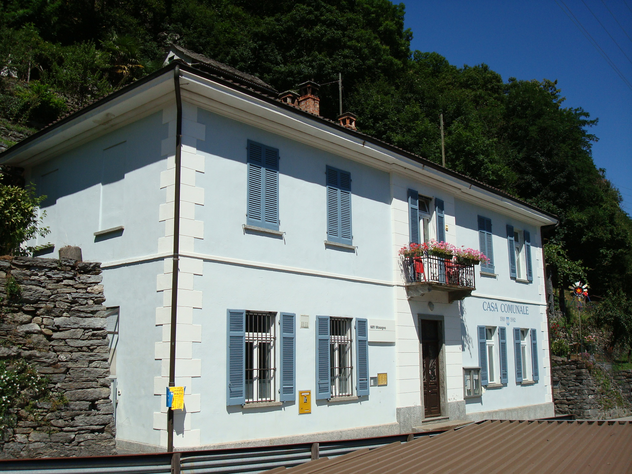 Town hall and post office of Mosogno, Ticino, Switzerland